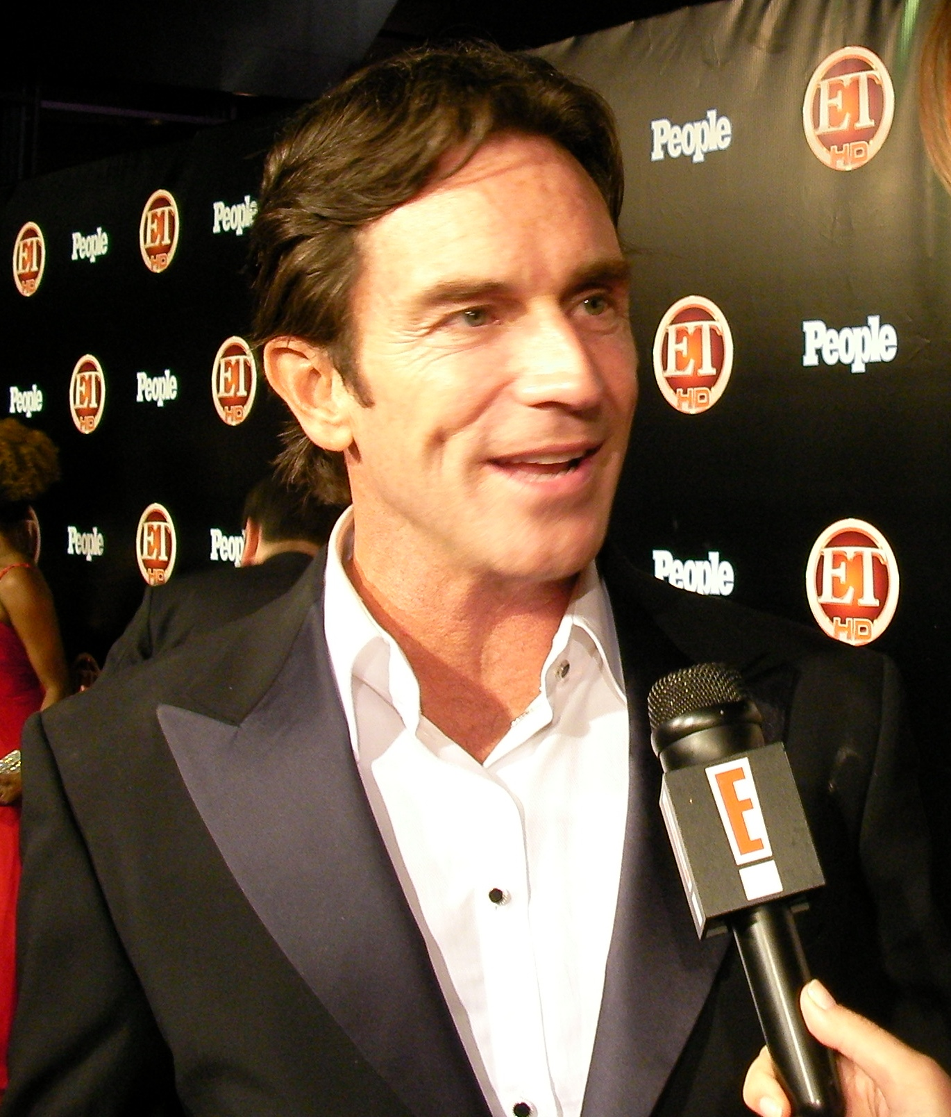 ET Post-Emmys Party, Walt Disney Concert Hall, Sept. 21, 2008